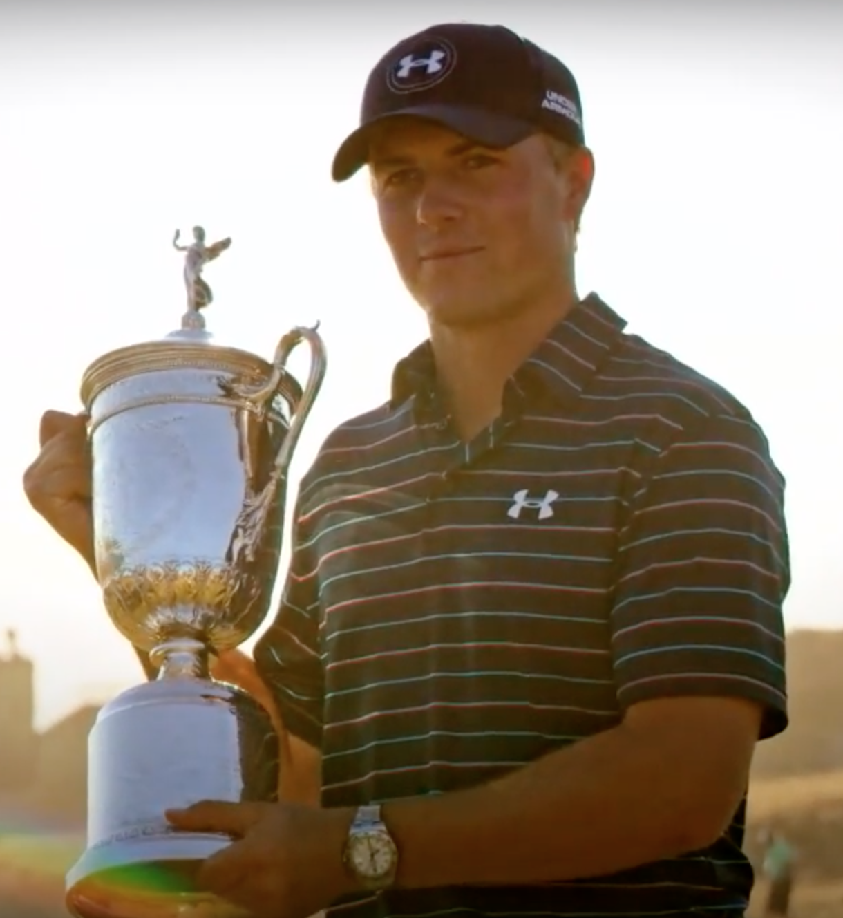 Jordan Spieth after winning the 2015 U.S. Open at Chambers Bay Golf